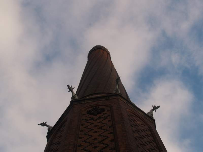 The Winding Chimney in the Carlsberg area of Copenhagen, Denmark